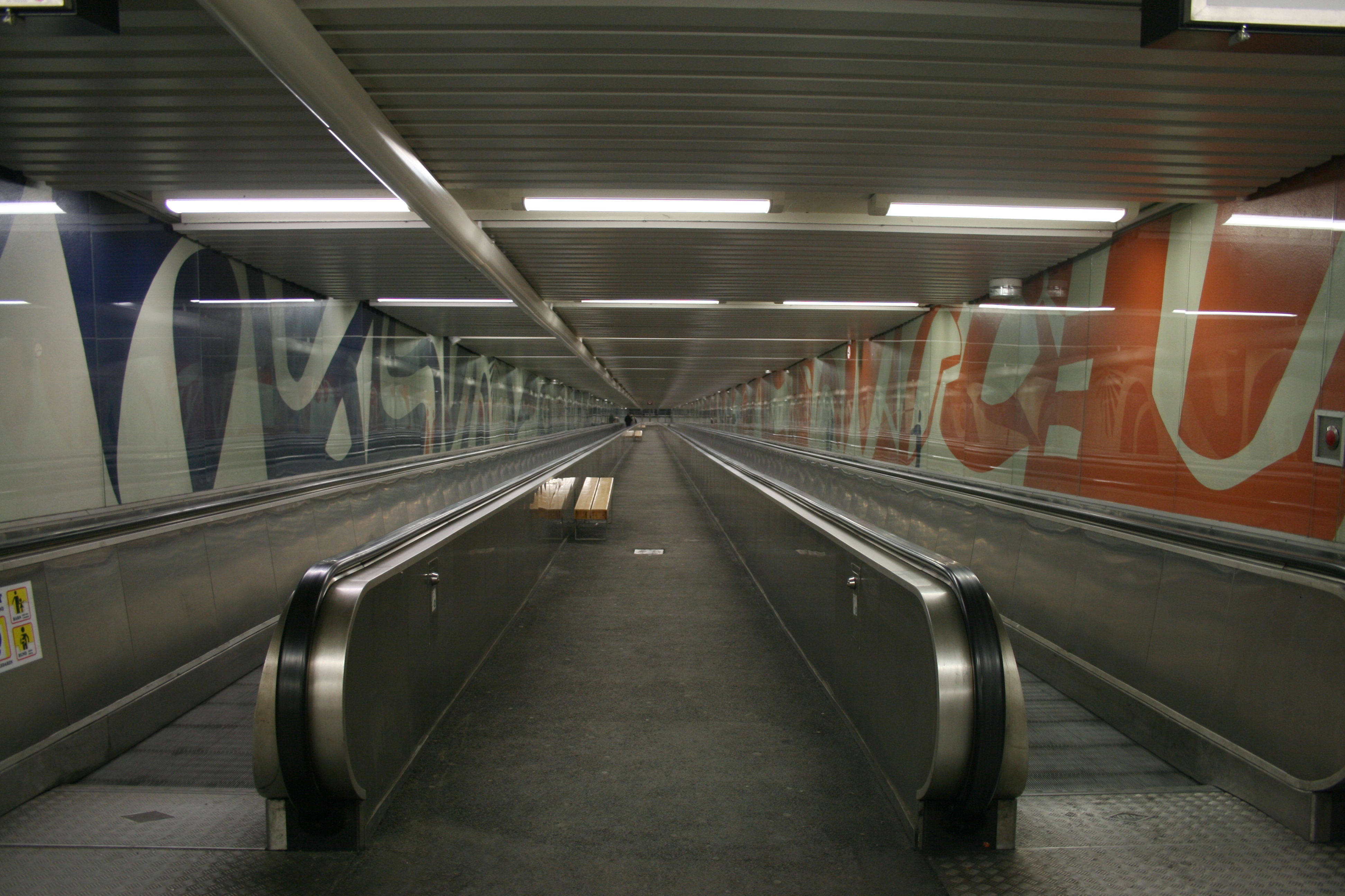 Passage from metro station Ropsten to south ticket hall